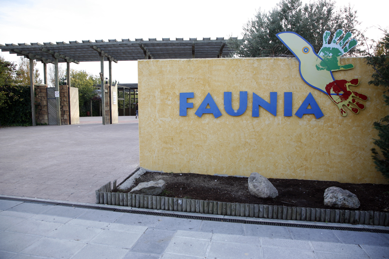 Faunia entrance. Madrid, Spain